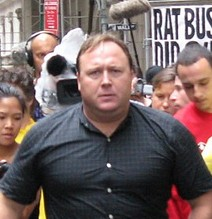 Alex Jones in Manhattan, New York City.